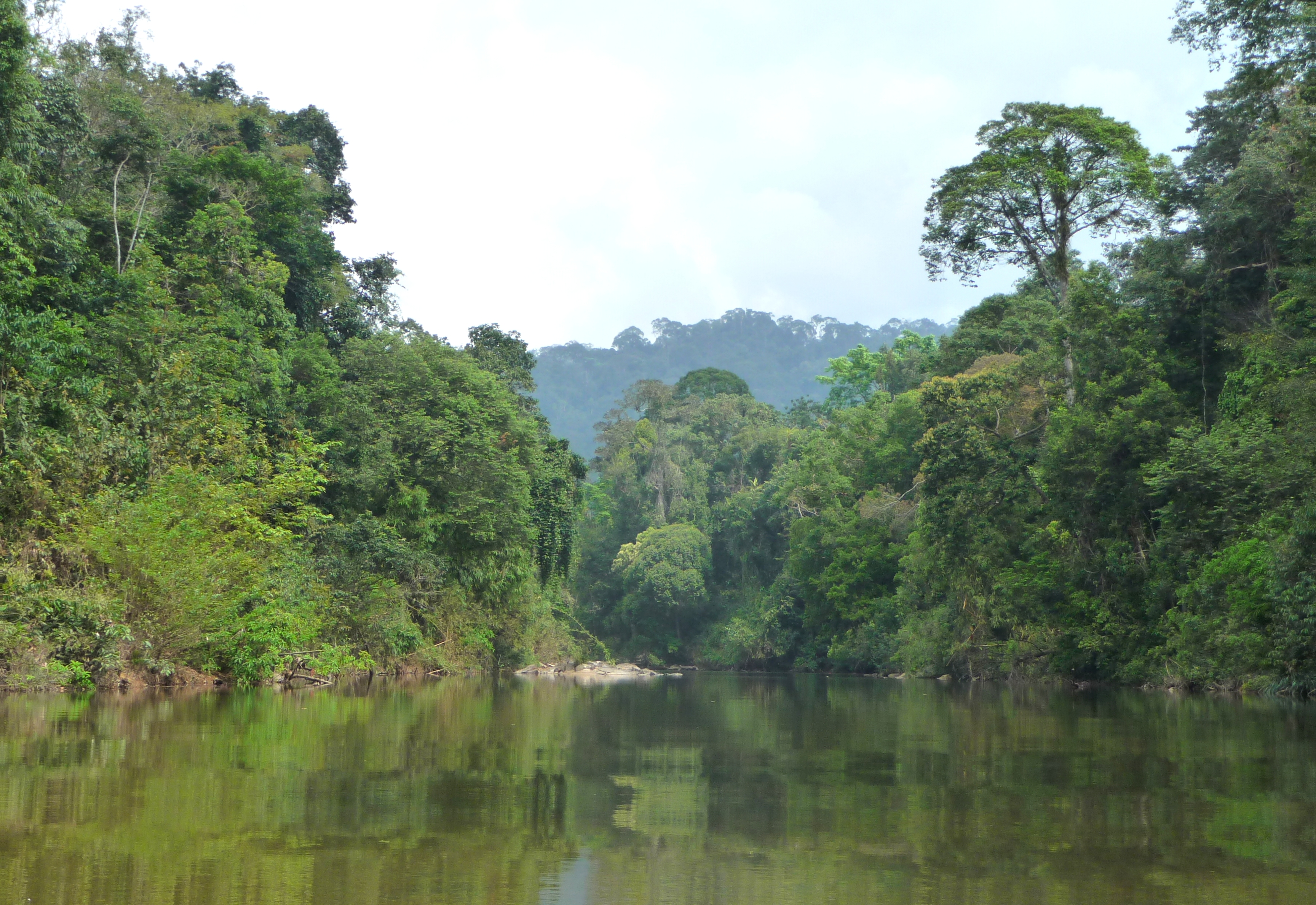 The Kincin River in the Endau-Rompin National Park (Pahang, Malaysia).